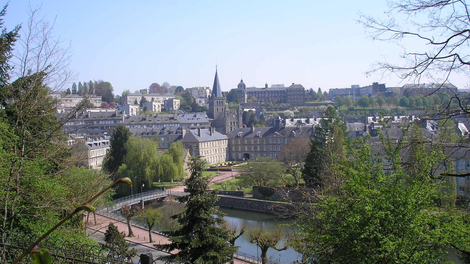 Vire (France, Normandy). Sight from the place du Château towards the église Sainte-Anne.